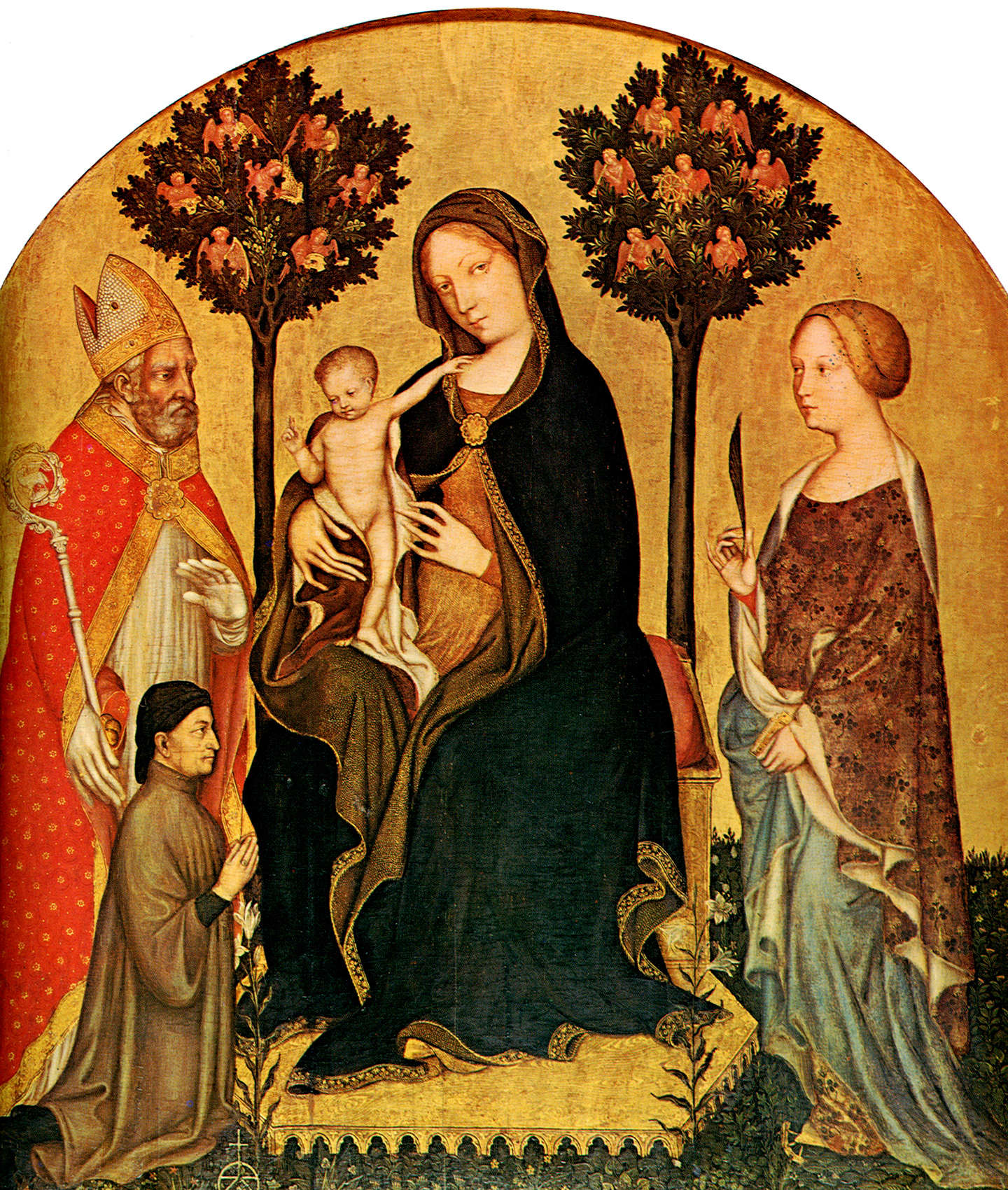 Madonna with Child and St Catherine, St Nicolas and Donor Gentile da Fabriano Tempera on panel, 131 x 113 cm Berlin, Staatliche Museen